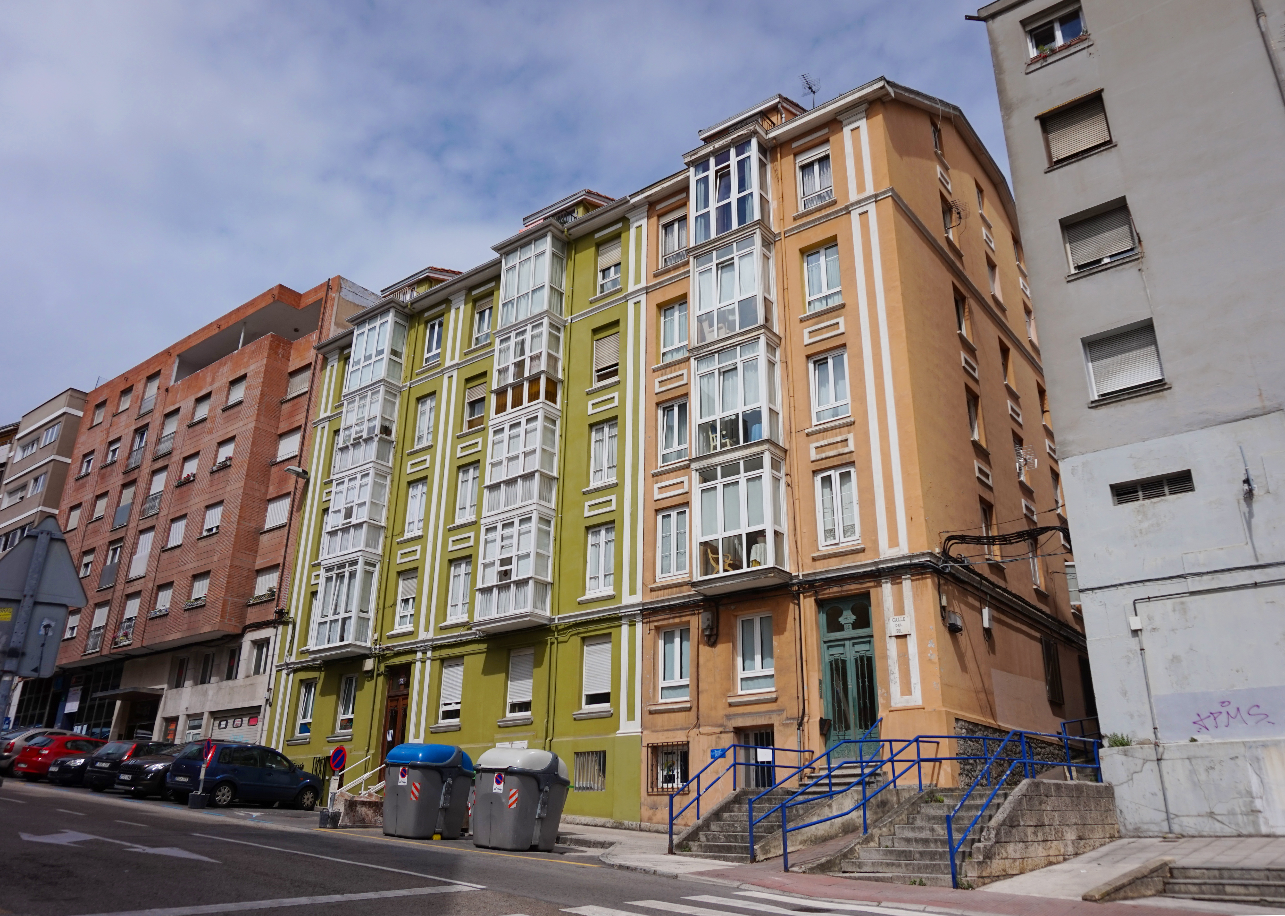 Buildings on the street Calle del Sol, Santander.This photograph was taken with a Sony ILCE-5000